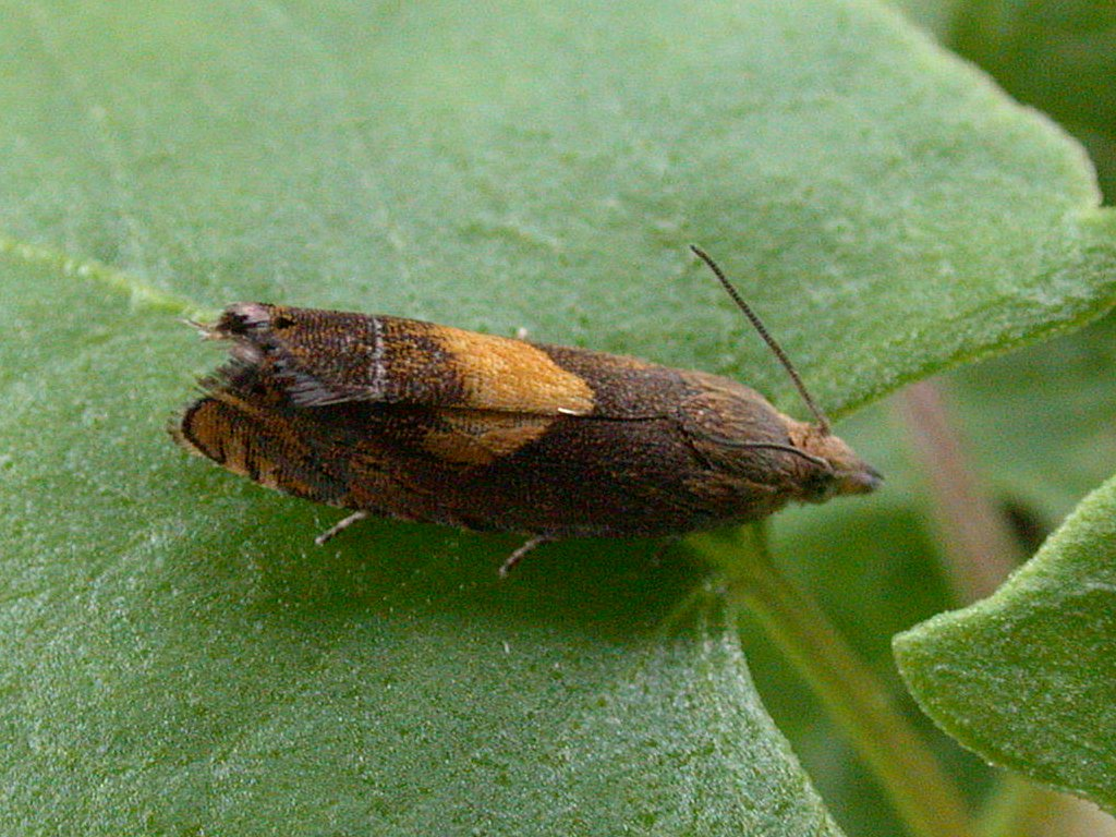 Dichrorampha petiverella (Tortricidae: Olethreutinae)